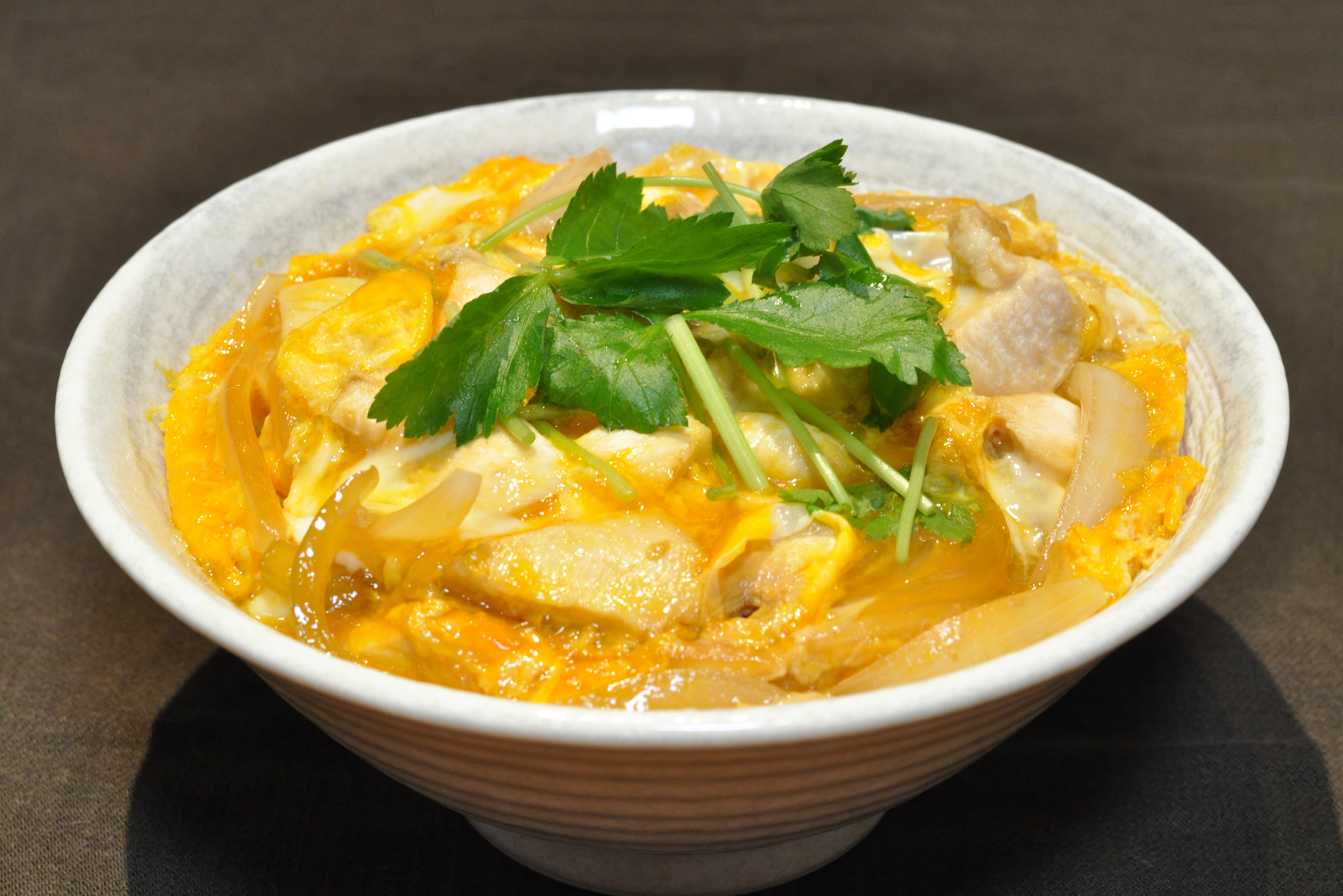 A bowl of rice topped with boiled chicken and eggs